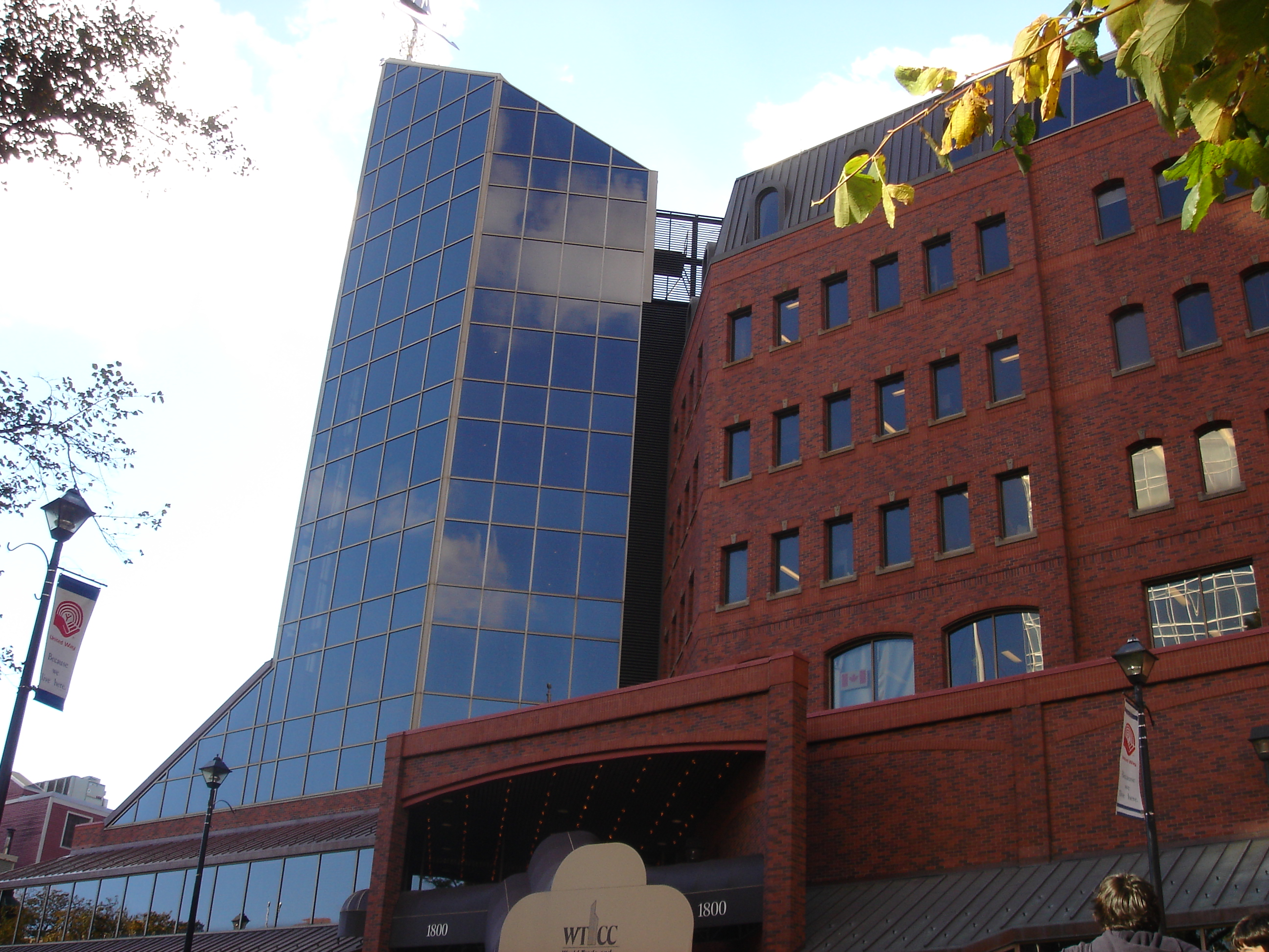 I am the author of this photo